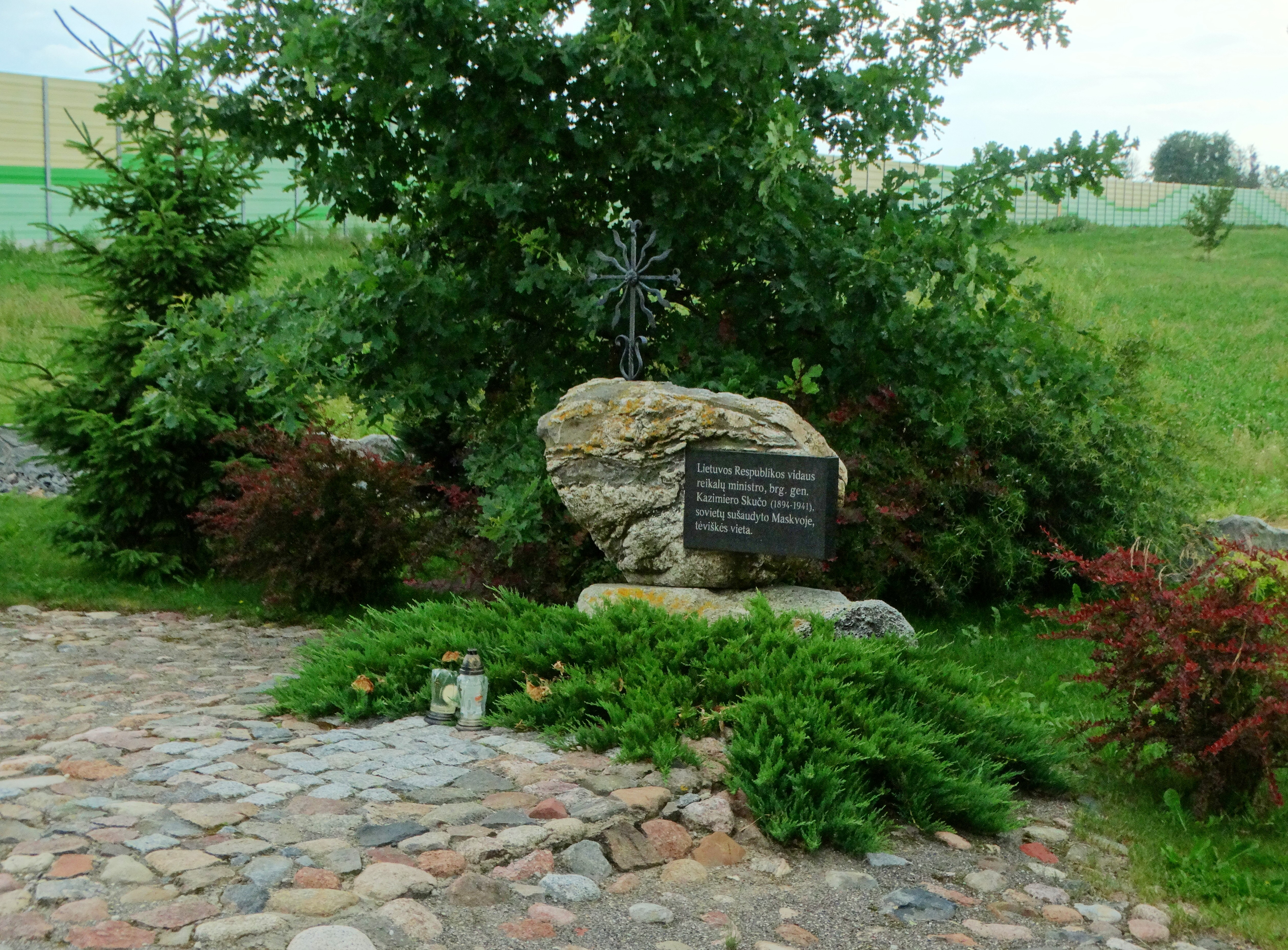 Mauručiai, memorial stone to general Kazimieras Skučas. Prienai district, Lithuania